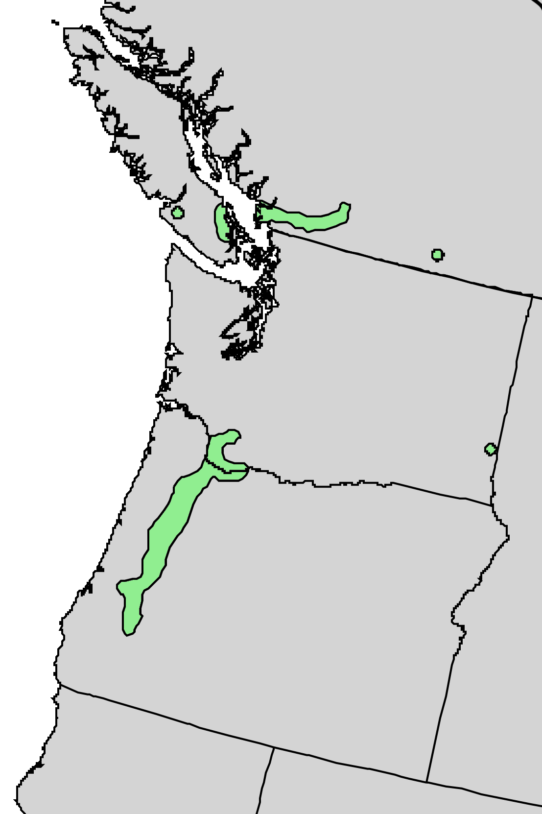 Natural distribution map for Salix sessilifolia (northwest sandbar willow)